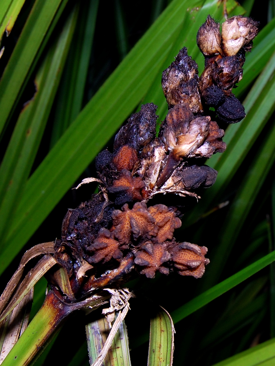 Scirpodendron ghaeri, infructescens close up. From Simeulue, Aceh.